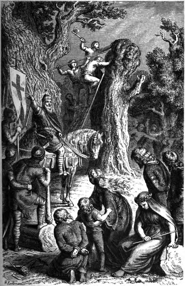 Captioned as "Zerstörung der Irminsäule durch Karl den Großen". The destruction of the Irminsul by Charlemagne.